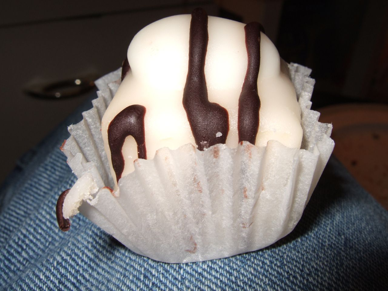 White Mr Kipling French fancy cake